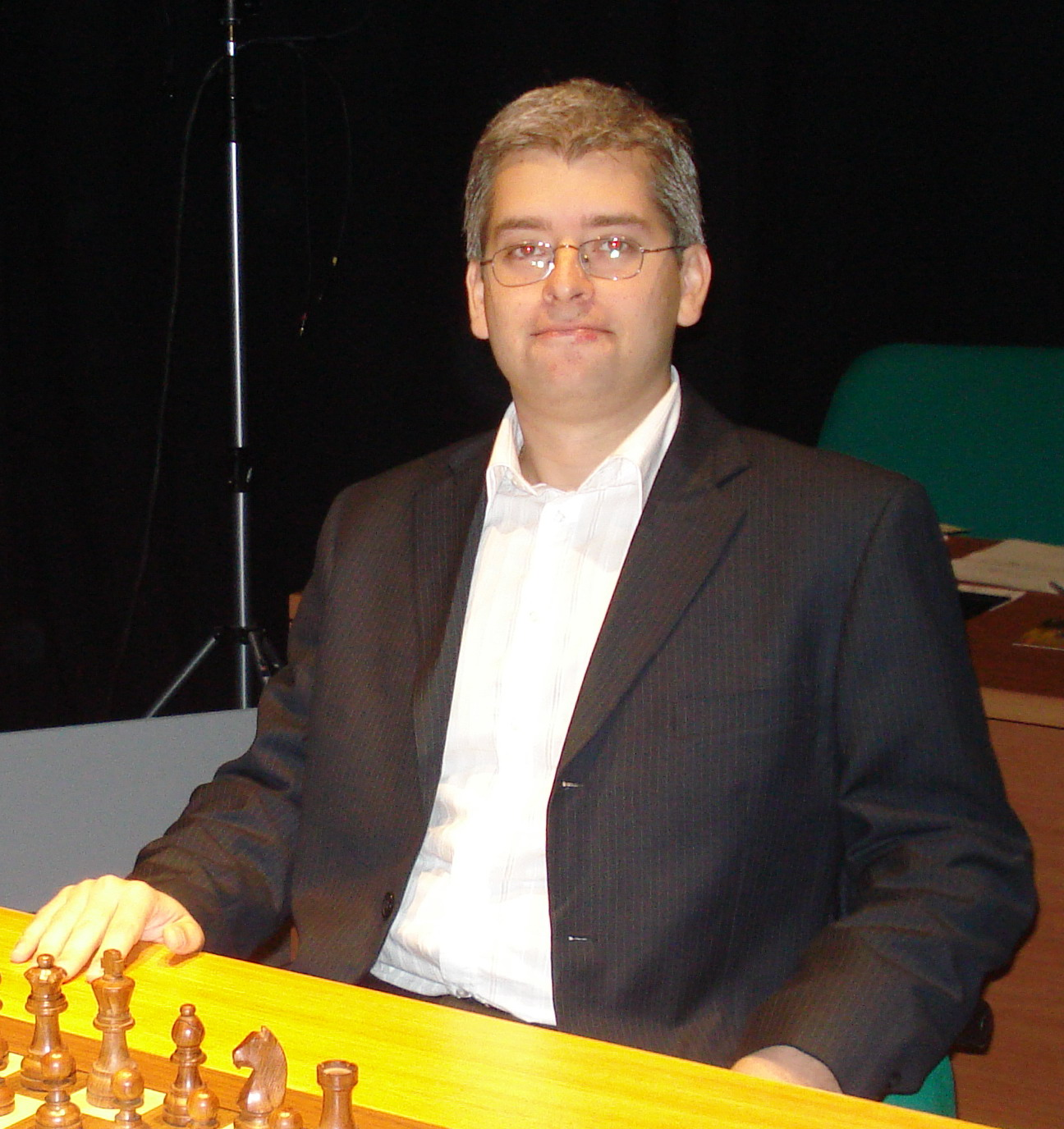 GM Giovanni Vescovi from Brazil, Linares 2008.